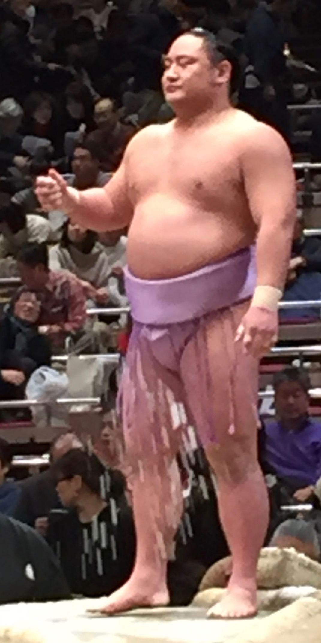 taken at Jan 2017 tournament